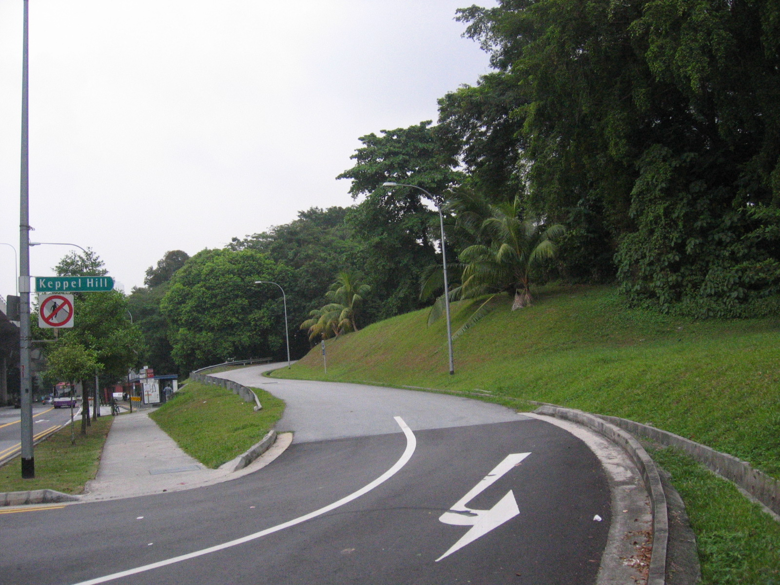 Keppel Hill. Taken by Terence Ong in November 2006.